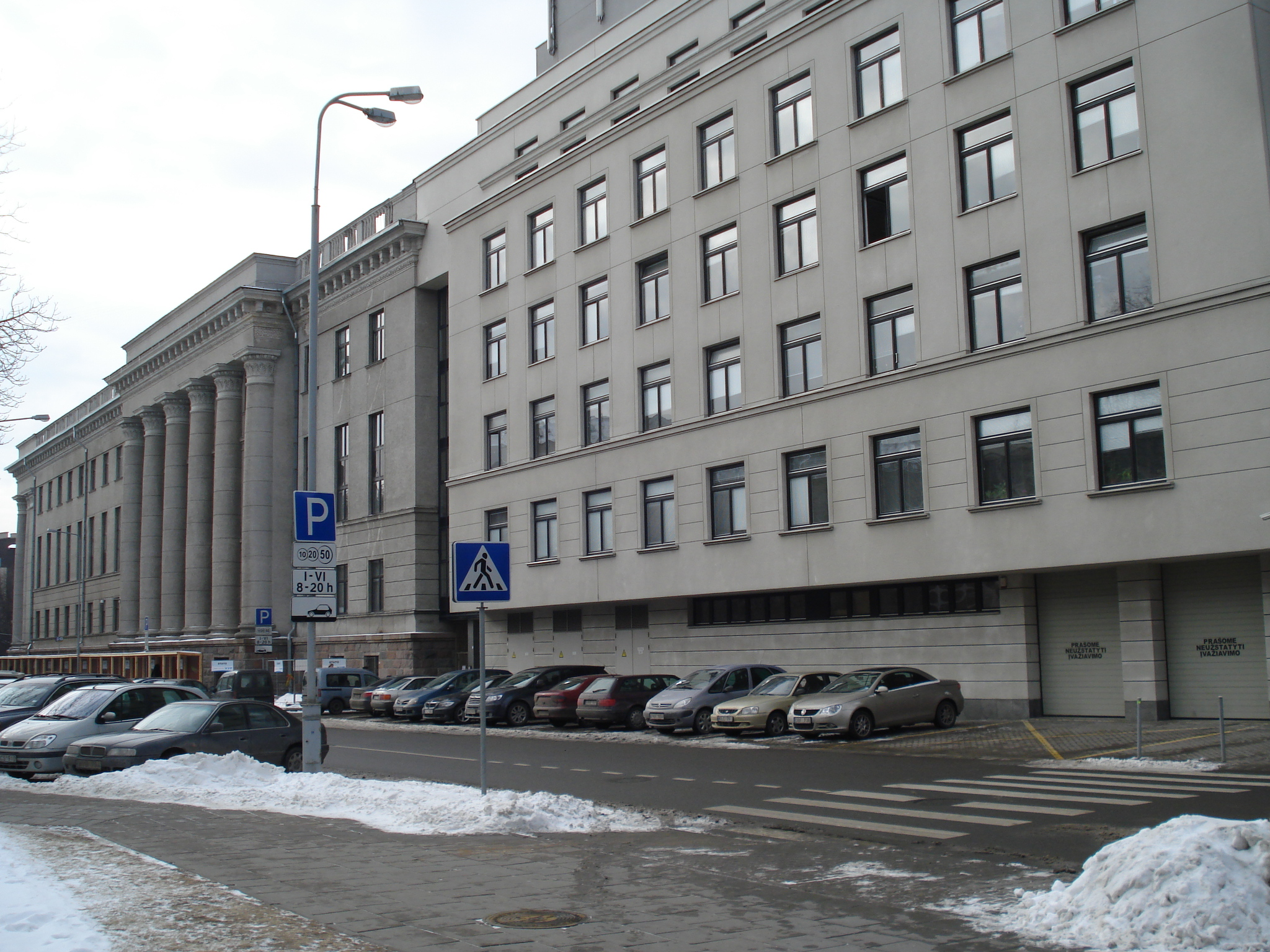 Martynas Mažvydas National Library of Lithuania. Eastern facade of main building (build 1953-1963) and new building